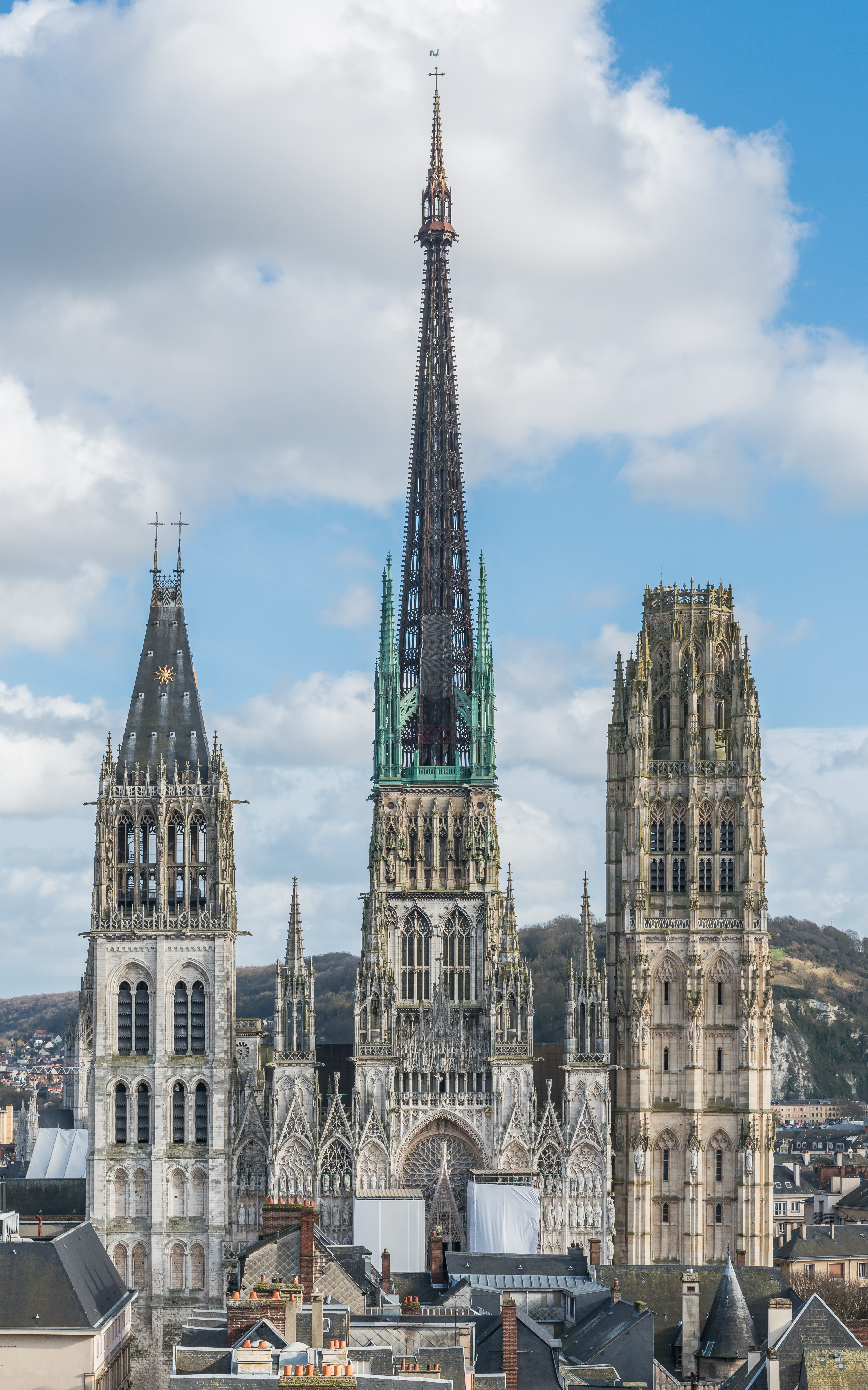 The Rouen Cathedral as seen from the Gros Horloge tower. The church was the tallest building in the world from 1876-1880 with a height of 151m.